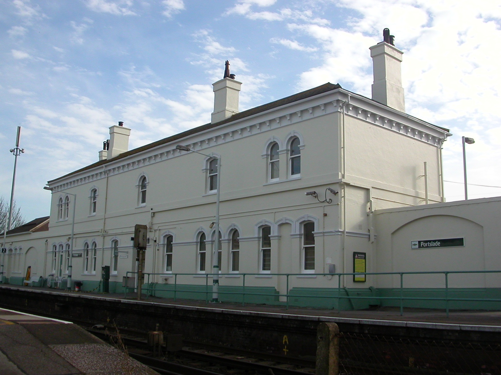 Exterior view of Portslade station's main building (from level crossing). Photographed on 17th February 2007.